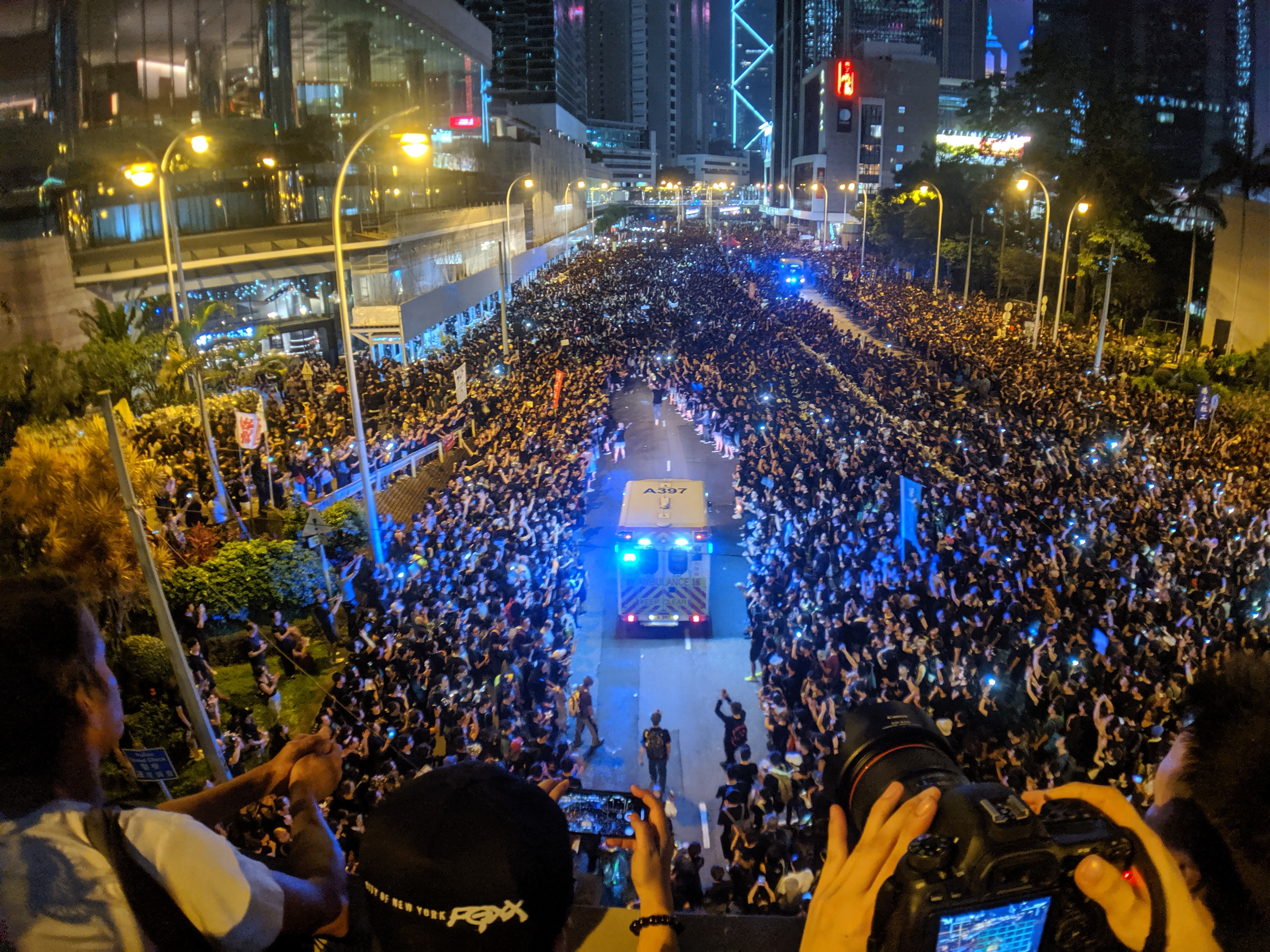 2019 Hong Kong anti-extradition law protest on 16 June, captured by Studio Incendo from Flickr.